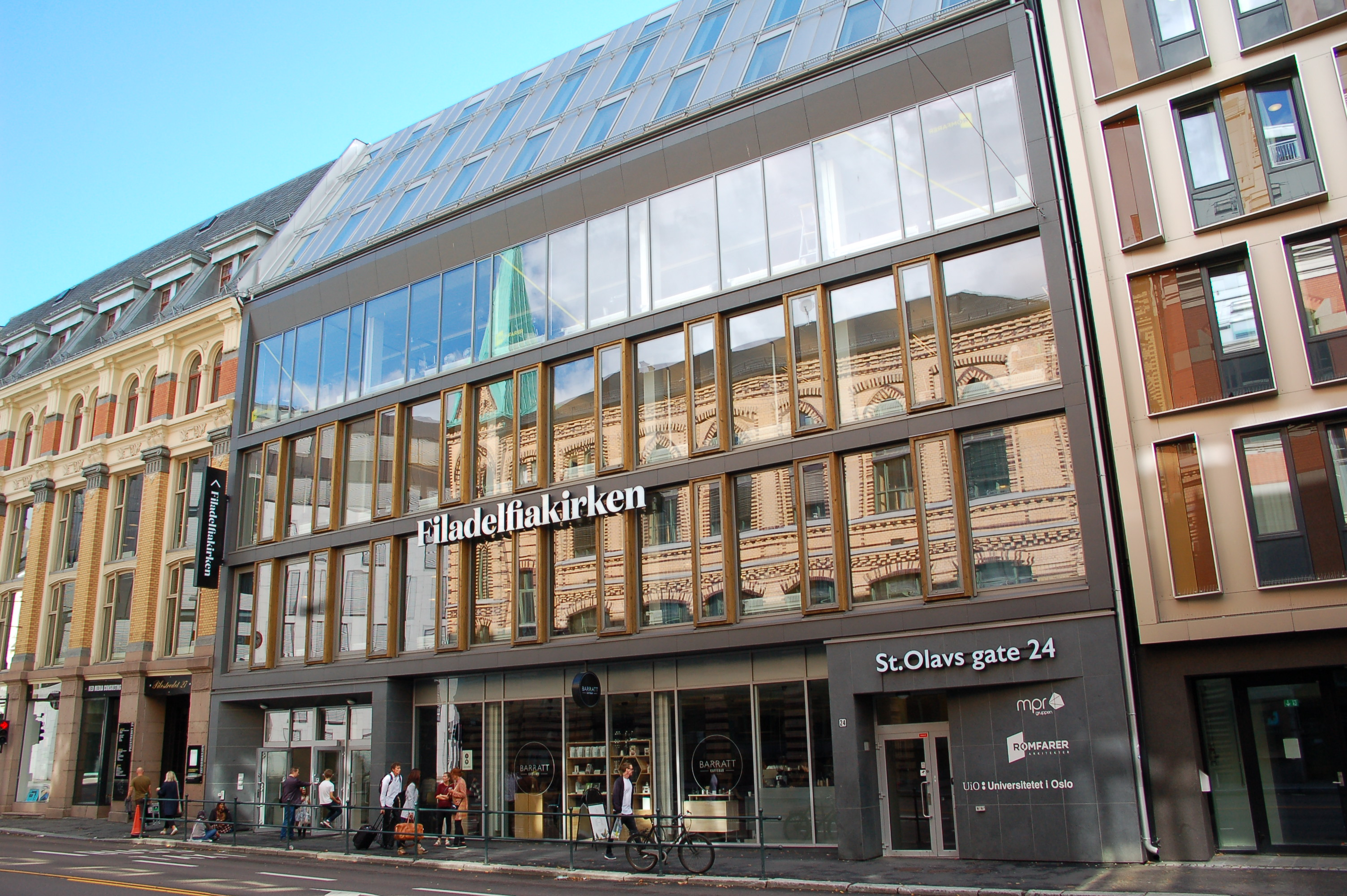 Filadelfia Bibelskole Oslo